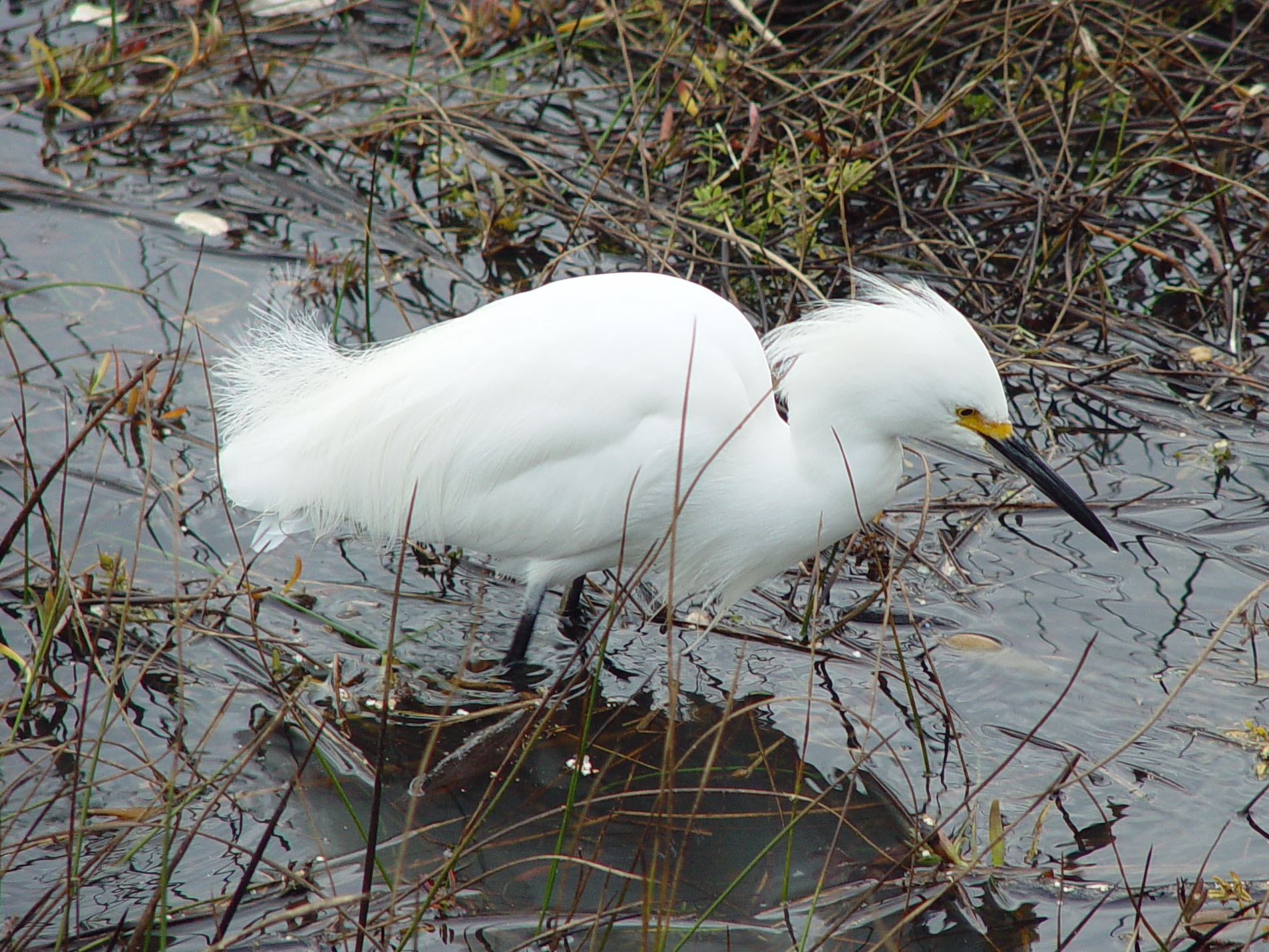 Description Egretta thula, Snowy Egret. Date december 25, 2002 Location Fort Cronkhite - Golden Gate NRA, California Photographer Franco Folini